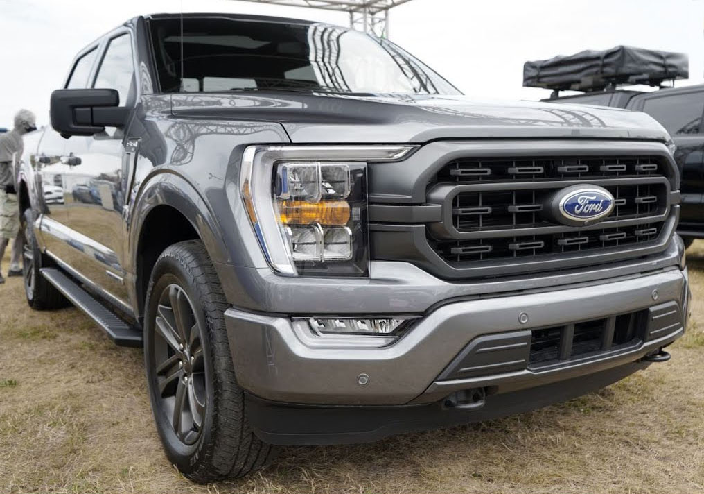 Ford F-150 front view (fourteenth generation, United States)